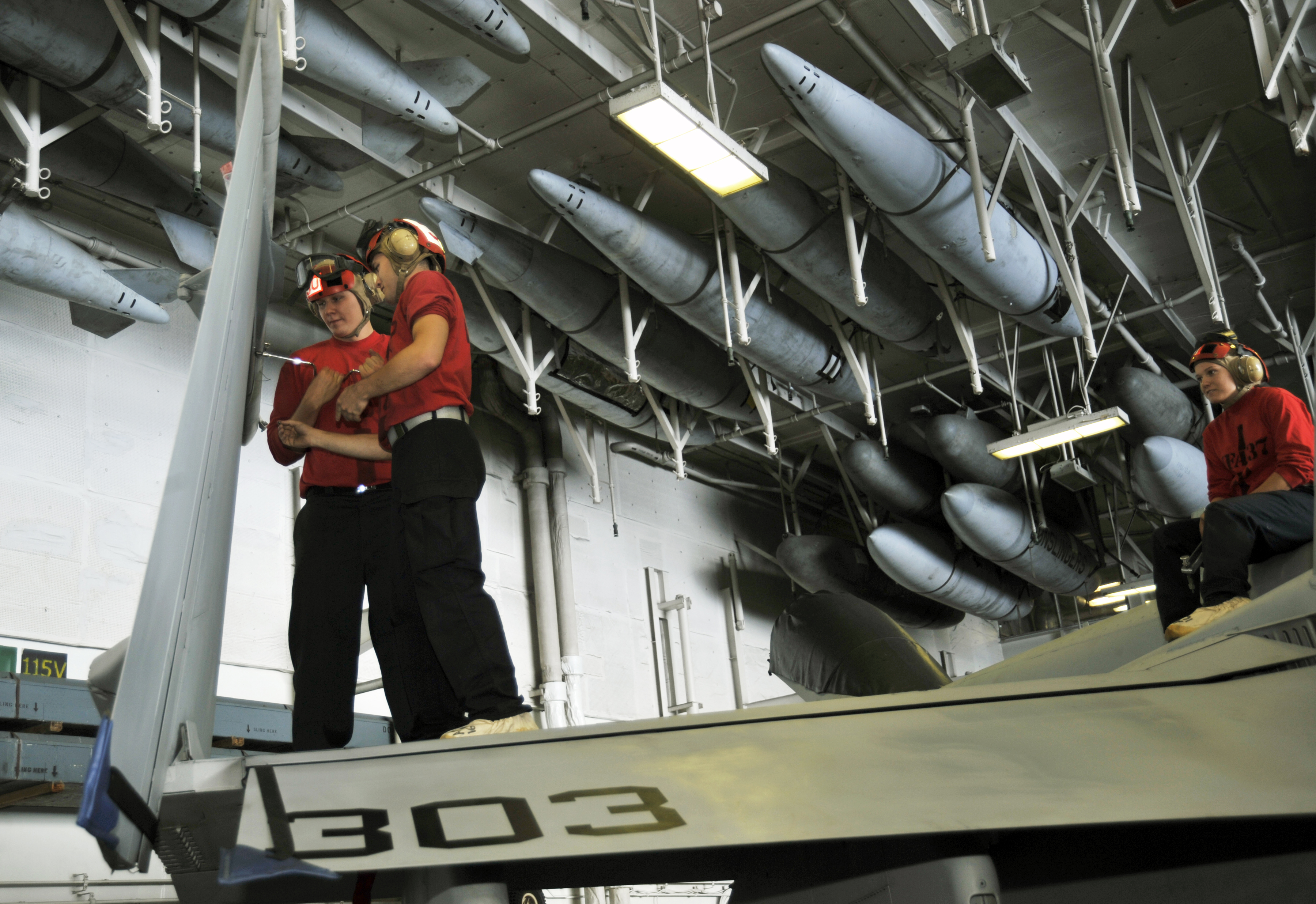 ATLANTIC OCEAN (May 25, 2010) Aviation Ordnancemen 3rd Class Eric Johnson and Robert Latner complete a 364-day inspection of an F/A-18C Hornet in the hangar bay of the Nimitz-class aircraft carrier USS Harry S. Truman (CVN 75). Harry S. Truman is deployed as part of the Harry S. Truman Carrier Strike Group supporting maritime security operations and theater security cooperation efforts in the U.S. 5th and 6th Fleet areas of responsibility. (U.S. Navy photo by Mass Communication Specialist 2nd Class Kilho Park/Released)